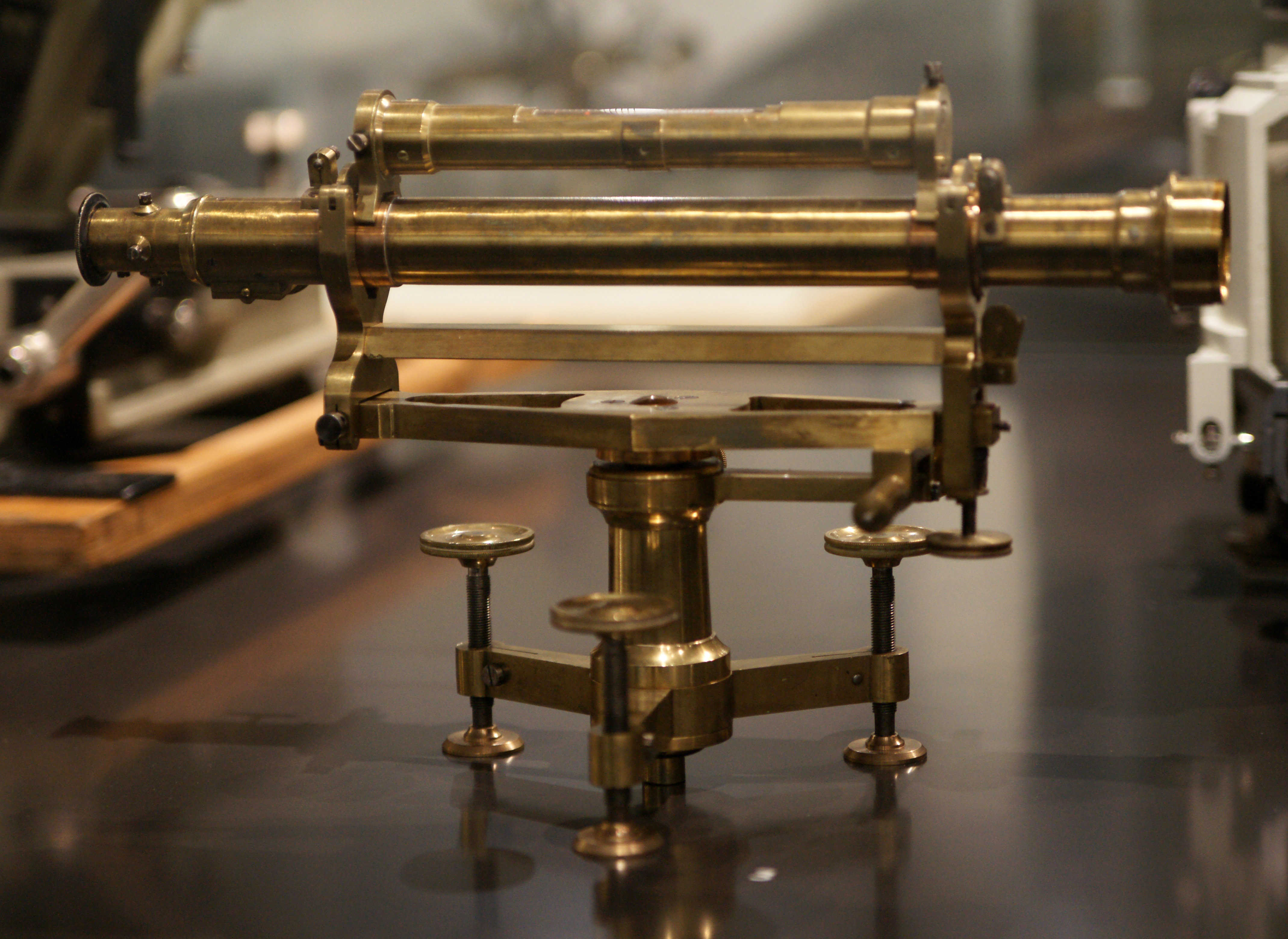 Levelling instrument for measuring the altitude of benchmarks, Kern+Co. Aarau, 1890.